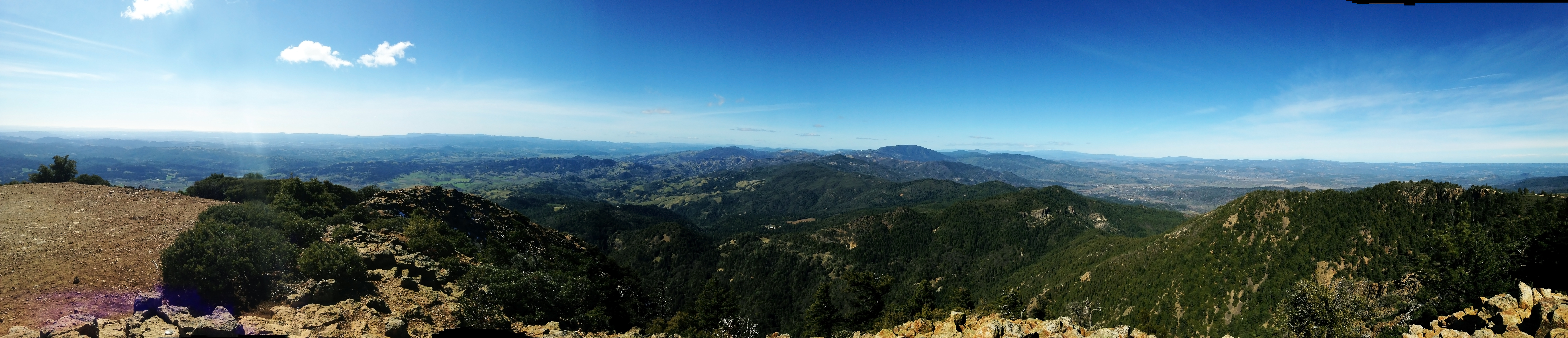 Panorama from the top of Mount Saint Helena in the Mayacamas Mountains, of the Northern Inner California Coast Ranges. In Lake and Sonoma Counties, Northern California.